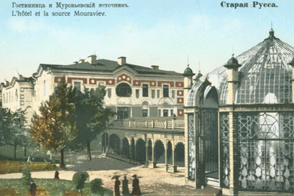 Kurort in Staraya Russa